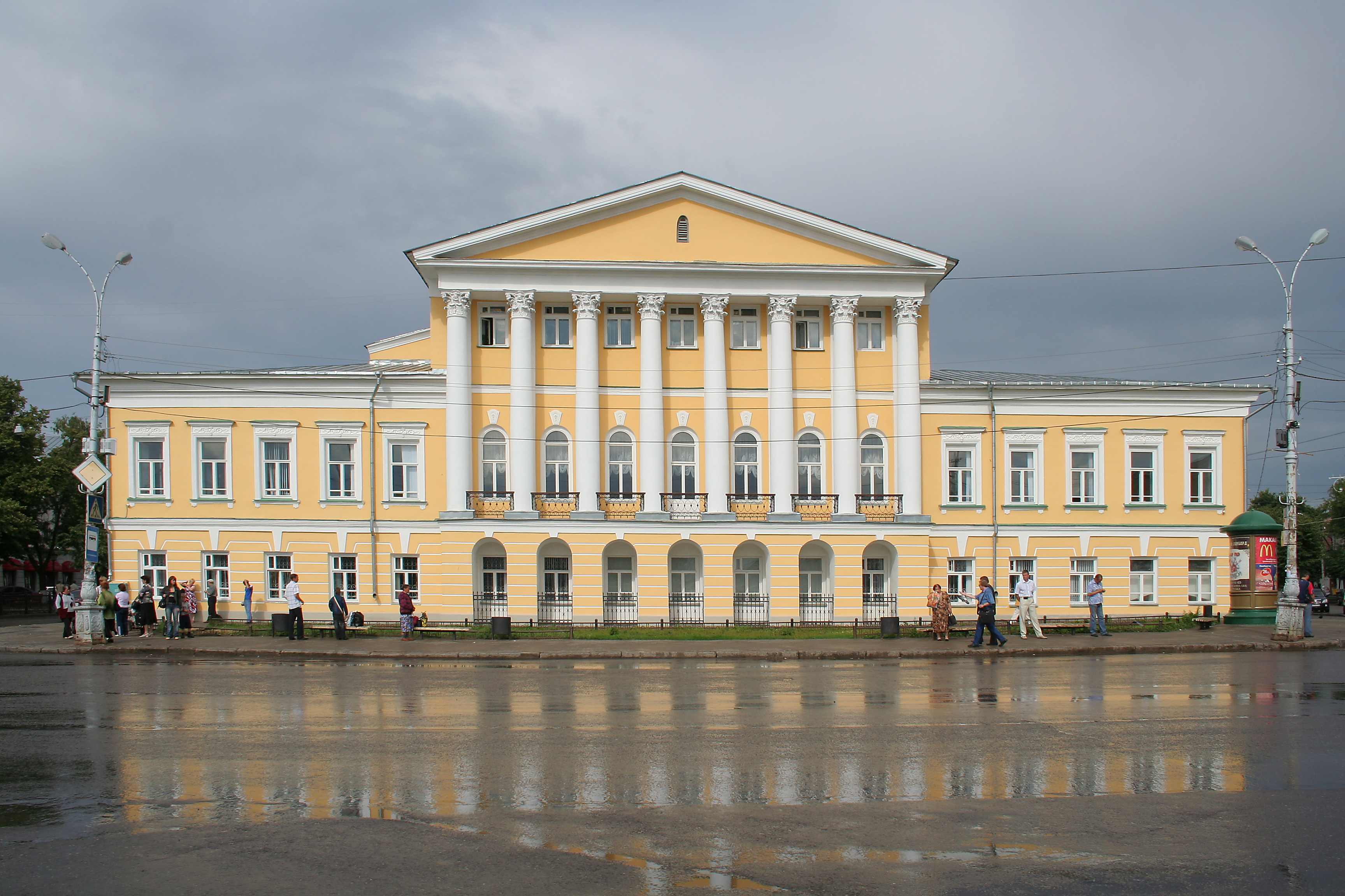 Former Borshchev House in Kostroma, Russia.